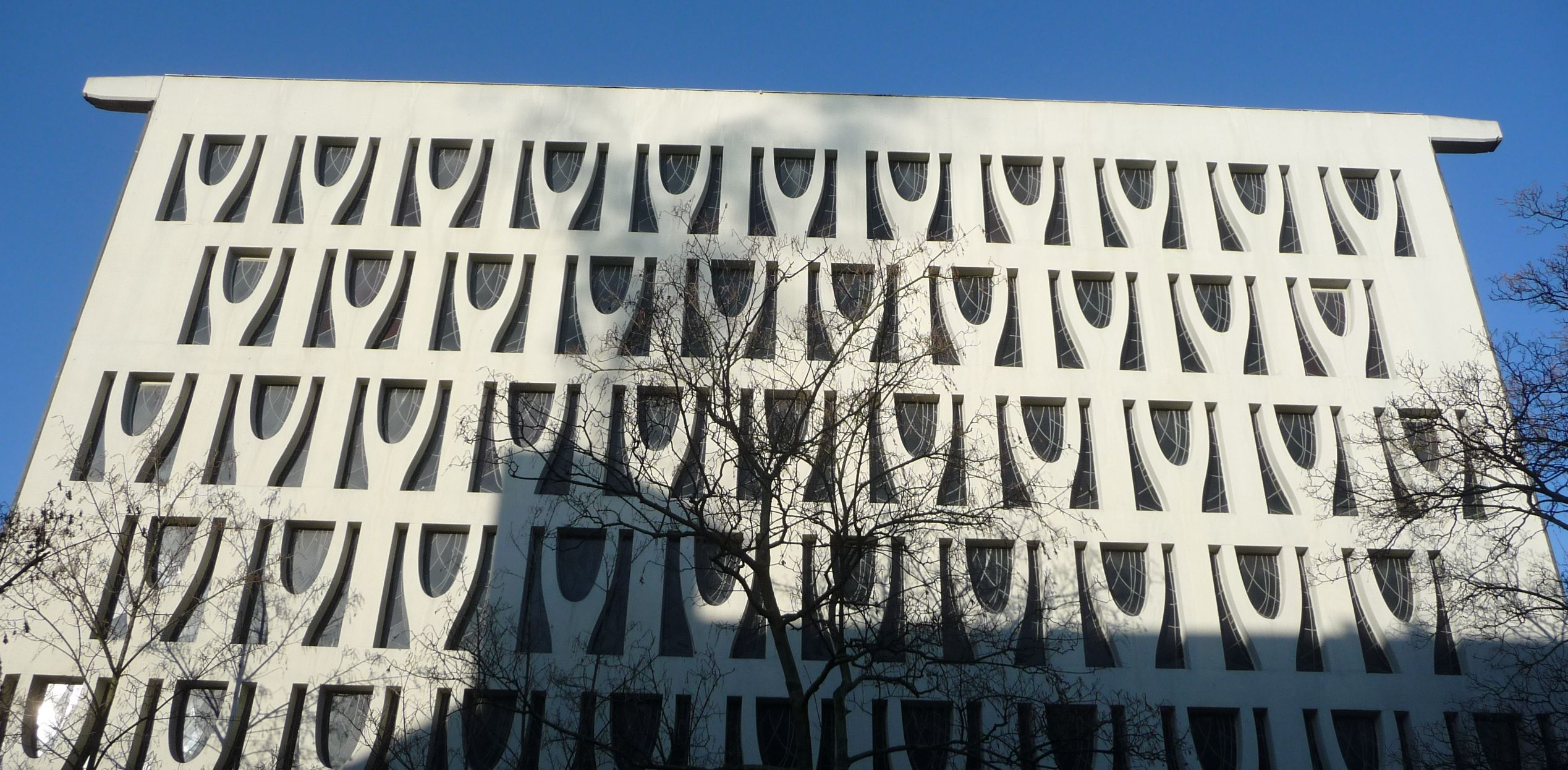 Church in Ludwigshafen